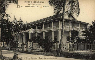 French colonial architecture, Grand-Bassam, Côte d’Ivoire.